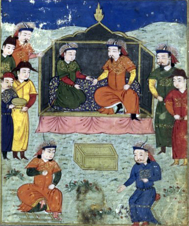 Arghun and Tekuder. Jami' al-tawarikh, Rashid al-Din.